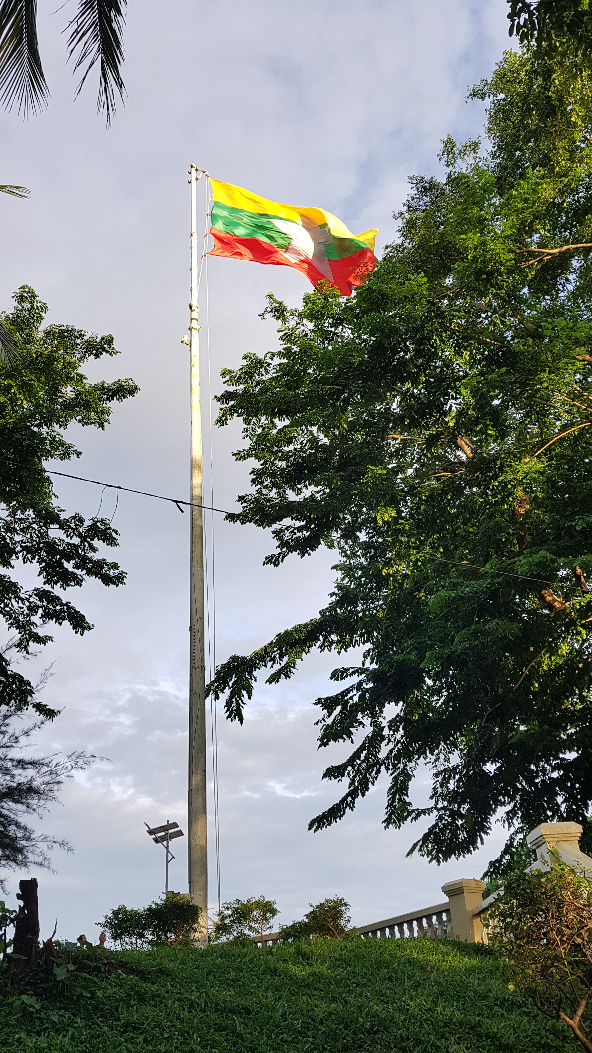 ​​ကော့​သောင်းမြို့,​ဘုရင့်​နောင်ကုန်း​​မြေကမြန်မာနိုင်ငံ​အလံ အလံတိုင်